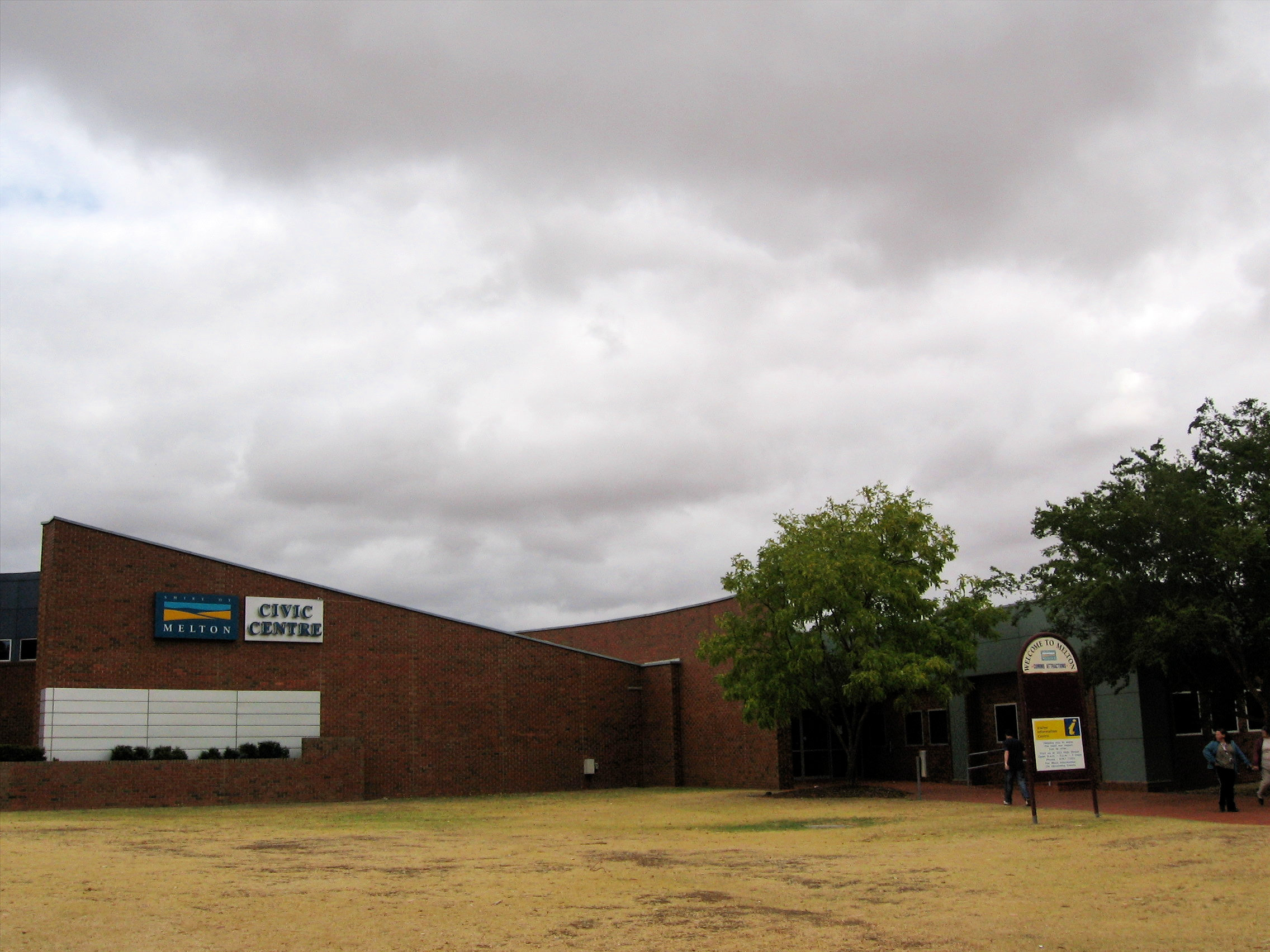 The Shire of Melton civic centre.